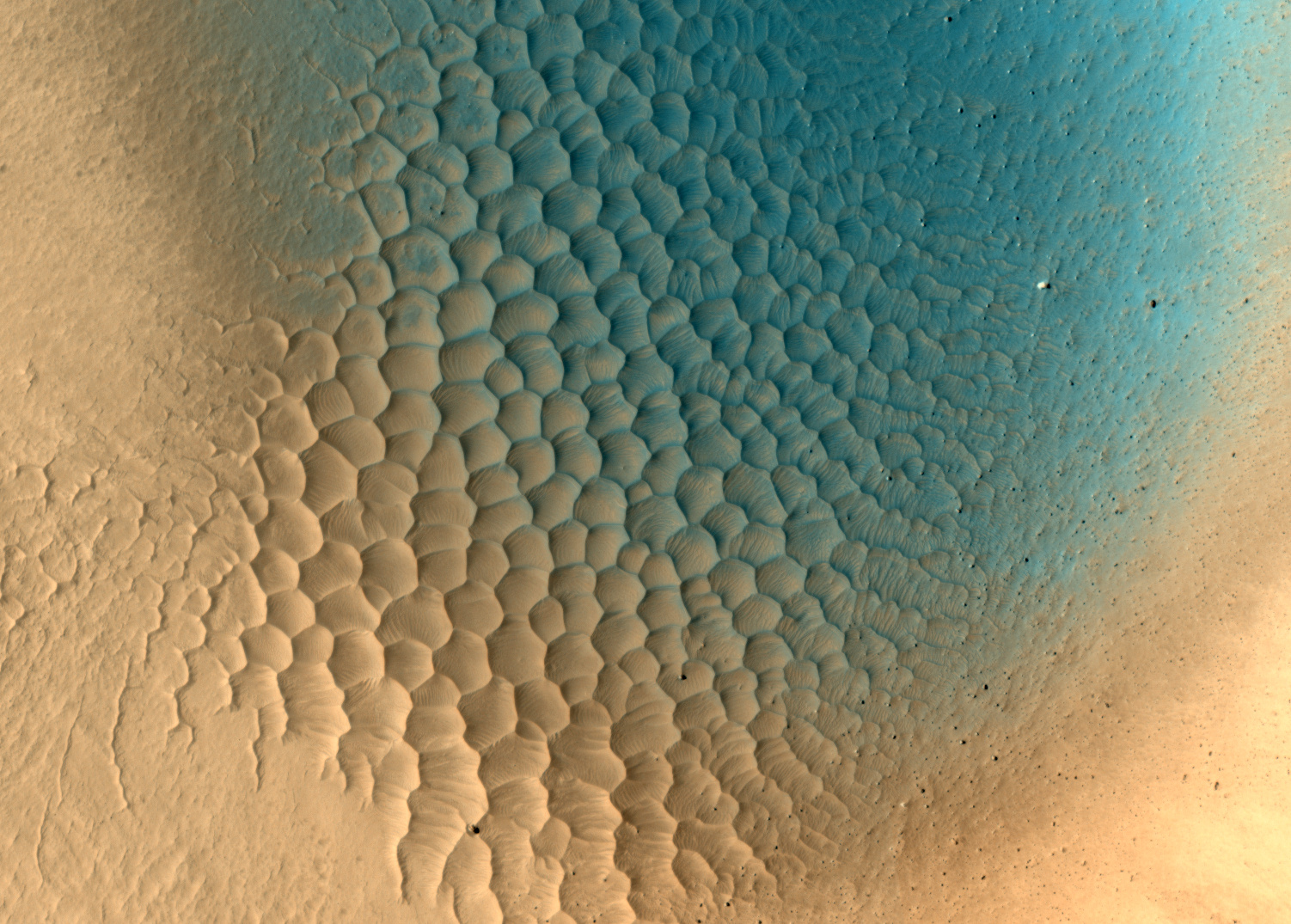 Sand formations in a crater sitting within Orcus Patera on Mars. The image is taken from a much larger observation done by the HiRISE instrument aboard the Mars Reconnaissance Orbiter. Image resolution is 25 cm per pixel.